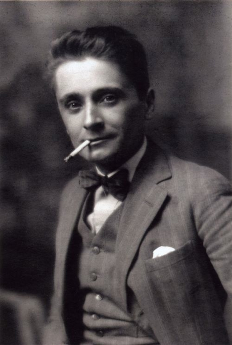 Portrait photograph of French Cubist painter Jean Metzinger (1912).